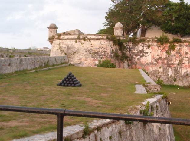 The ramparts of the La Cabaña fortress, guarding the entrance to the harbor of Havana, Cuba. Taken July 2004 by glasperlenspiel.